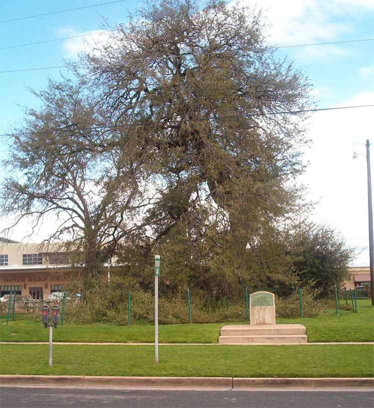 Treaty Oak, Austin, Texas